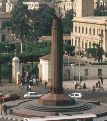 Monument to the Martyrs of Cairo University in 1955